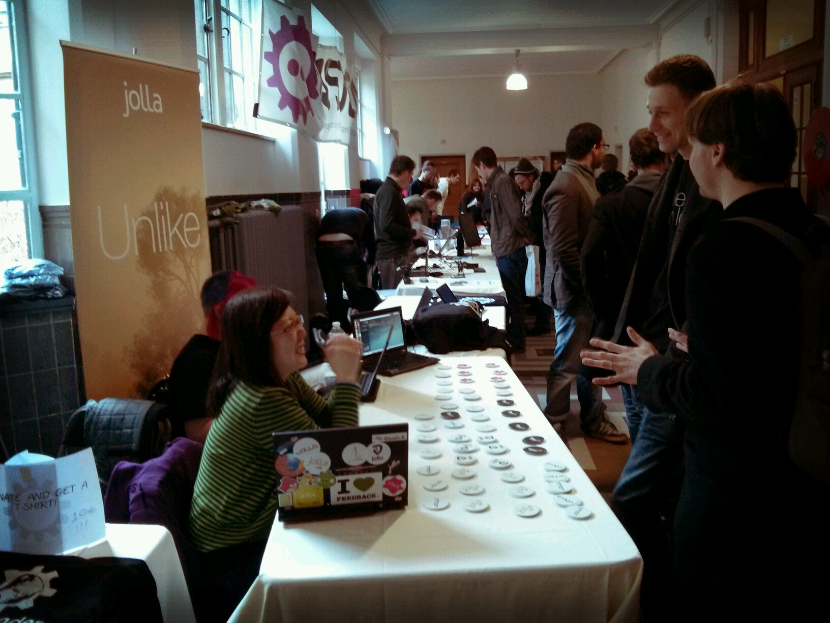 Jolla booth @ FOSDEM